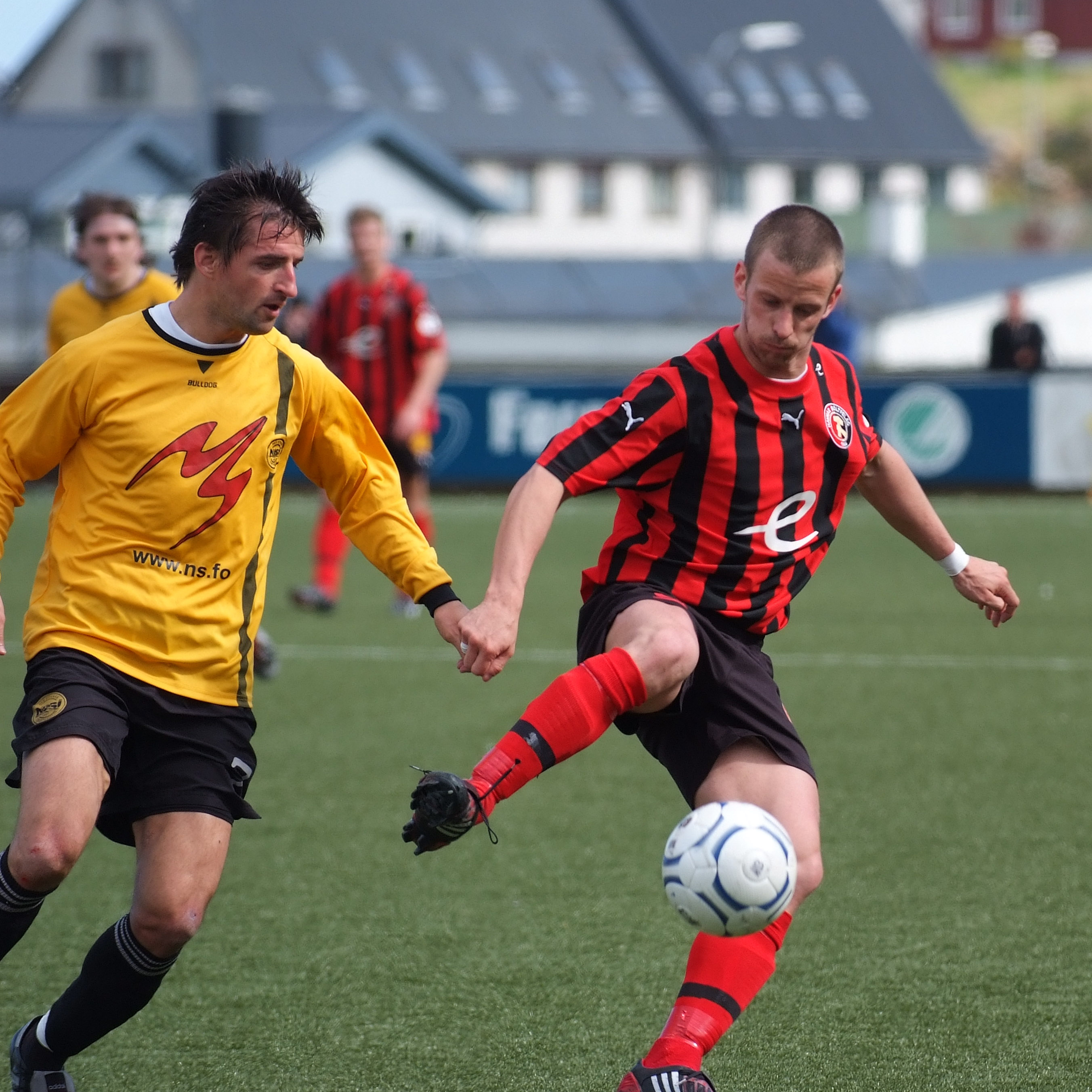 Nenad Stanković, serbian-, and Jákup á Borg, faroese-, football players during the match NSÍ Runavík (yellow-black) vs. HB Tórshavn (red-black)